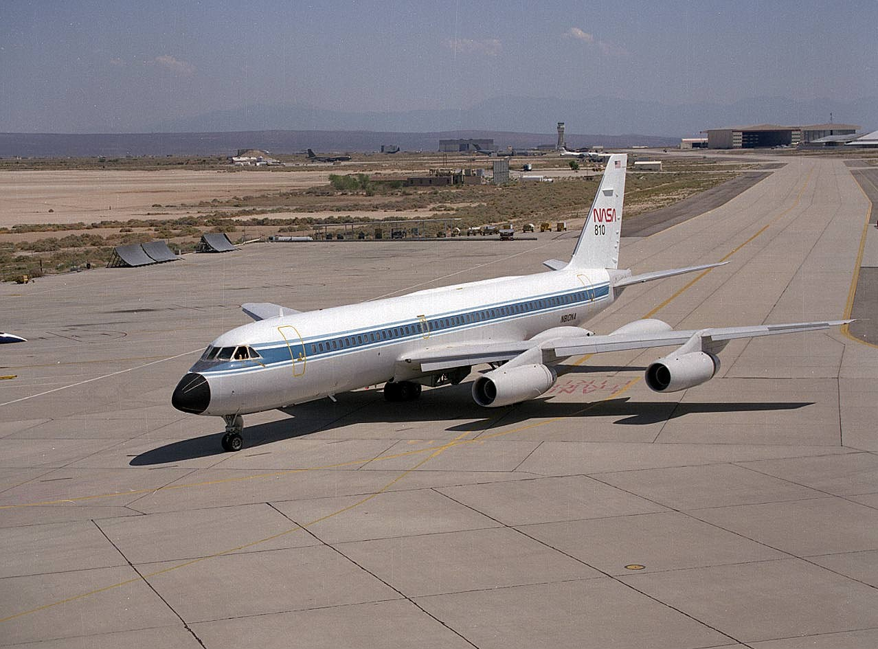 Convair CV 990 NASA 810, a former medium altitude atmospheric research aircraft, was modified at NASA's Dryden Flight Research Center, Edwards, California, where it became a landing systems research aircraft (LSRA) to test and evaluate brakes and landing gear systems on space shuttles and conventional aircraft. Testing of space shuttle components in the modified Convair 990 transport-type aircraft began in early 1993.